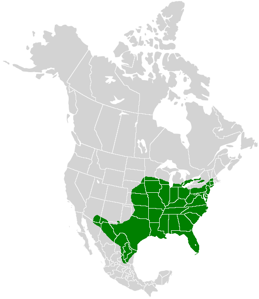 A range map showing the distribution of the Tawny Emperor (Asterocampa clyton).